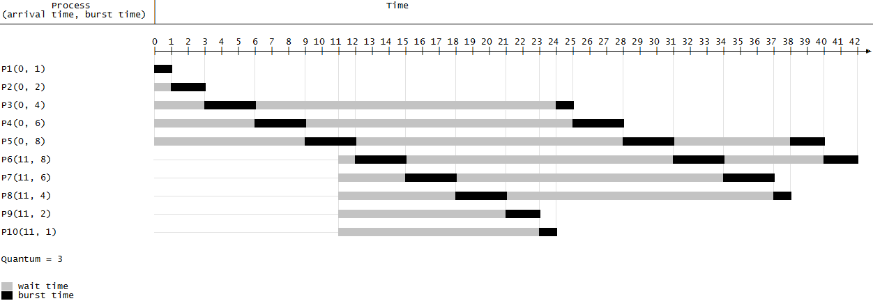 Round-robin algorithm with quantum=3.